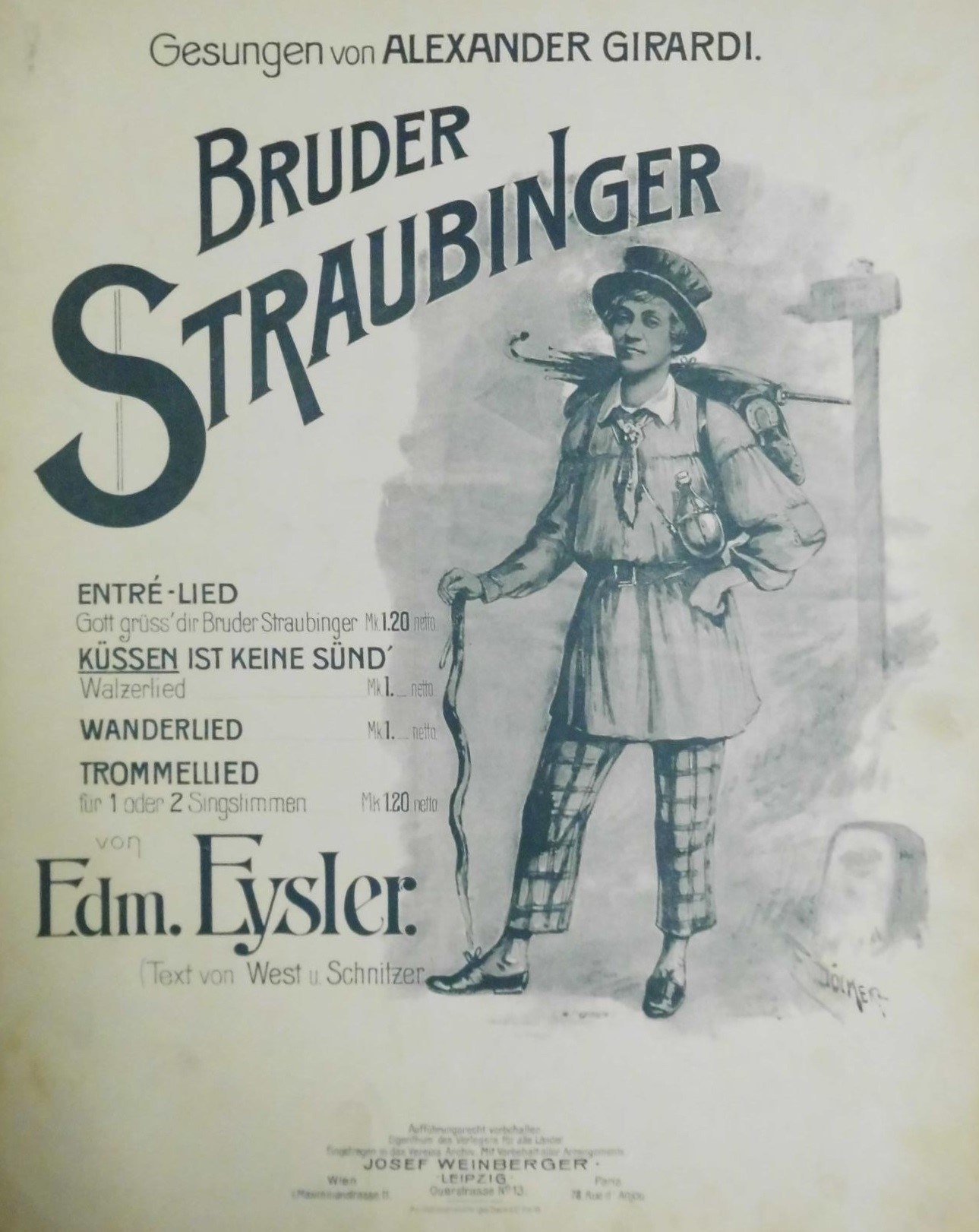 Cover to the sheet music for four songs from Edmund Eysler's operetta Bruder Straubinger. Depicted on the cover is Alexander Girardi who created the title role.